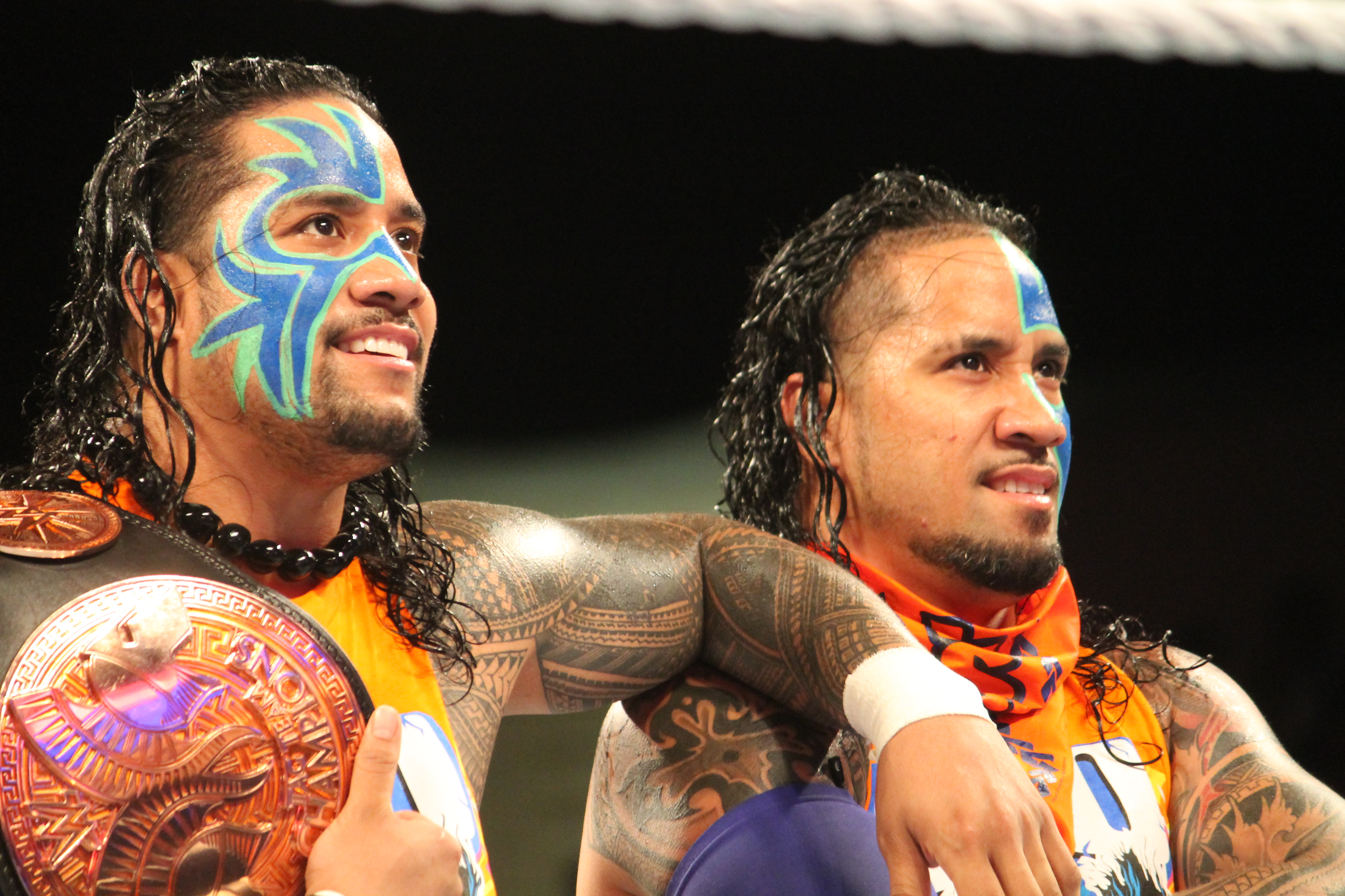 The Usos, as the WWE Tag Team Champions, at a WWE SmackDown television taping on September 16, 2014.